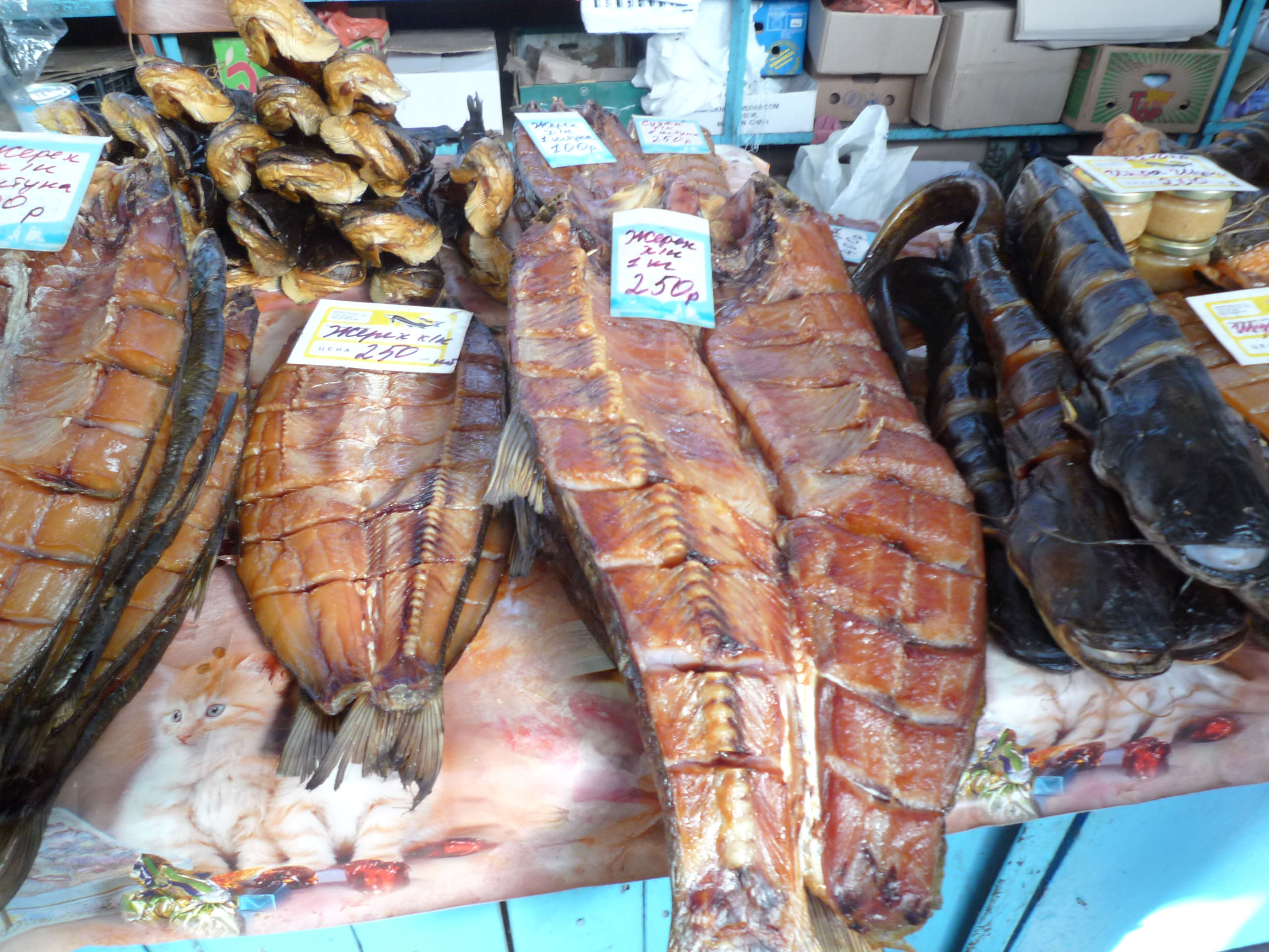 Astrakhan (Russia), Smoked fish on the market — Sturgeon.